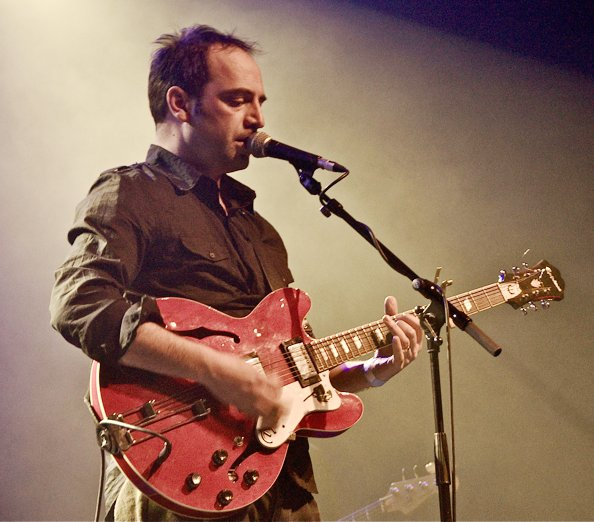 Adrian Crowley Chemikal Underground, 15th Anniversary, Celtic Connections, ABC Glasgow.